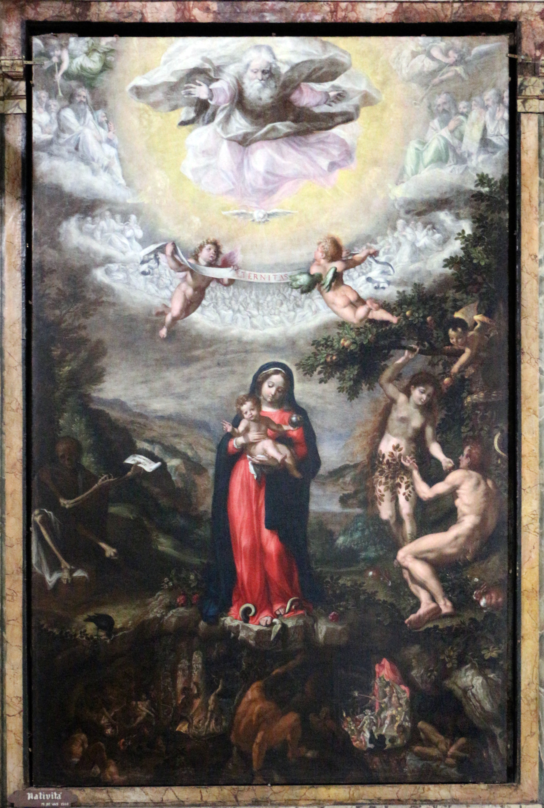 San Francesco a Ripa (Rome) - Interior